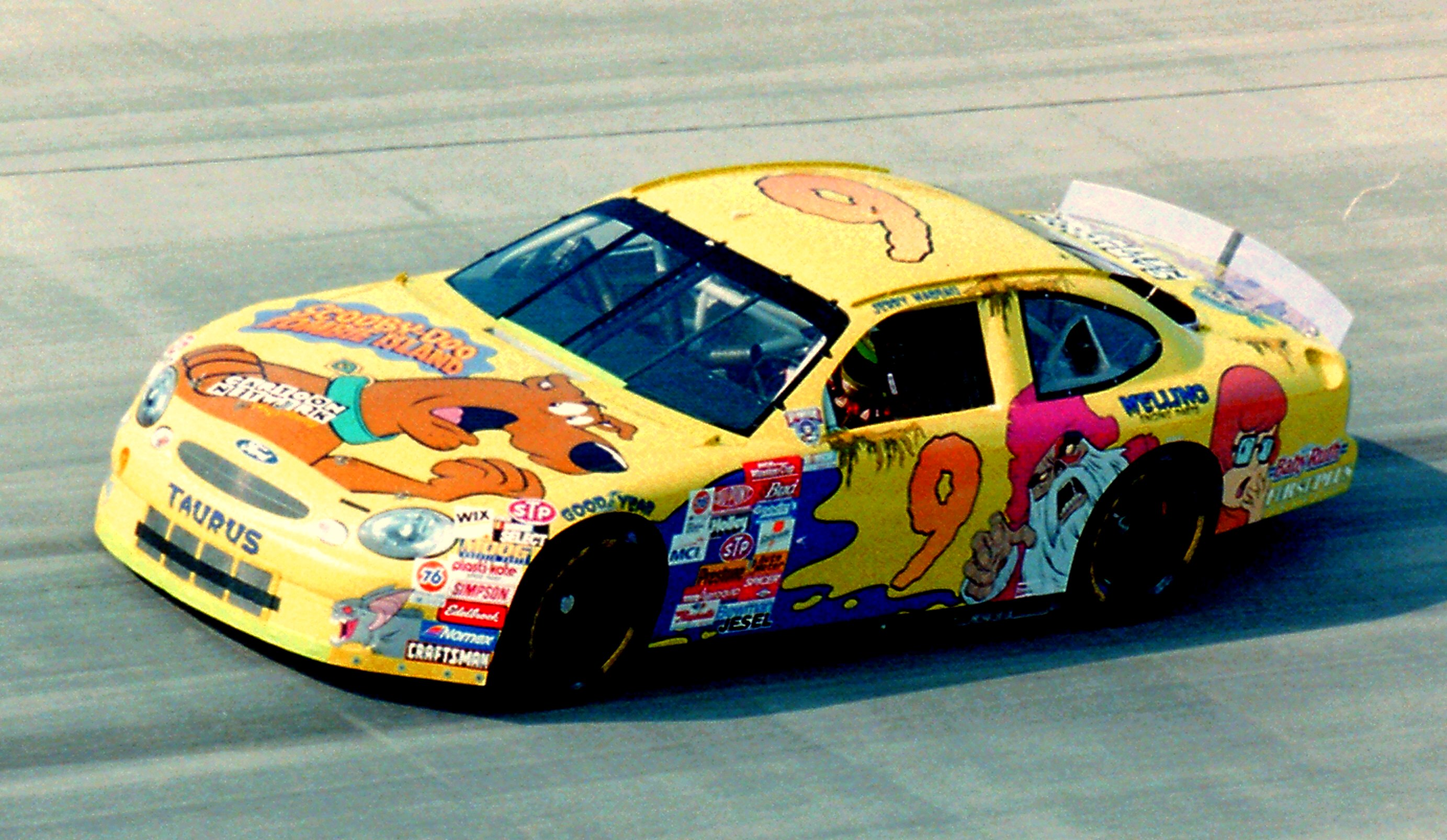 Jerry Nadeau drives the No. 9 Cartoon Network Ford for Melling Racing in the NASCAR Winston Cup Series MBNA Gold 400 at Dover Downs International Speedway, September 20 1998.